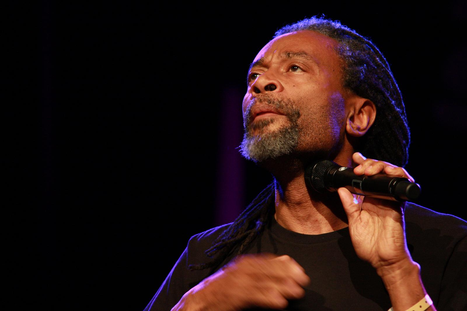 Bobby McFerrin, North Sea Jazz Festival 2008